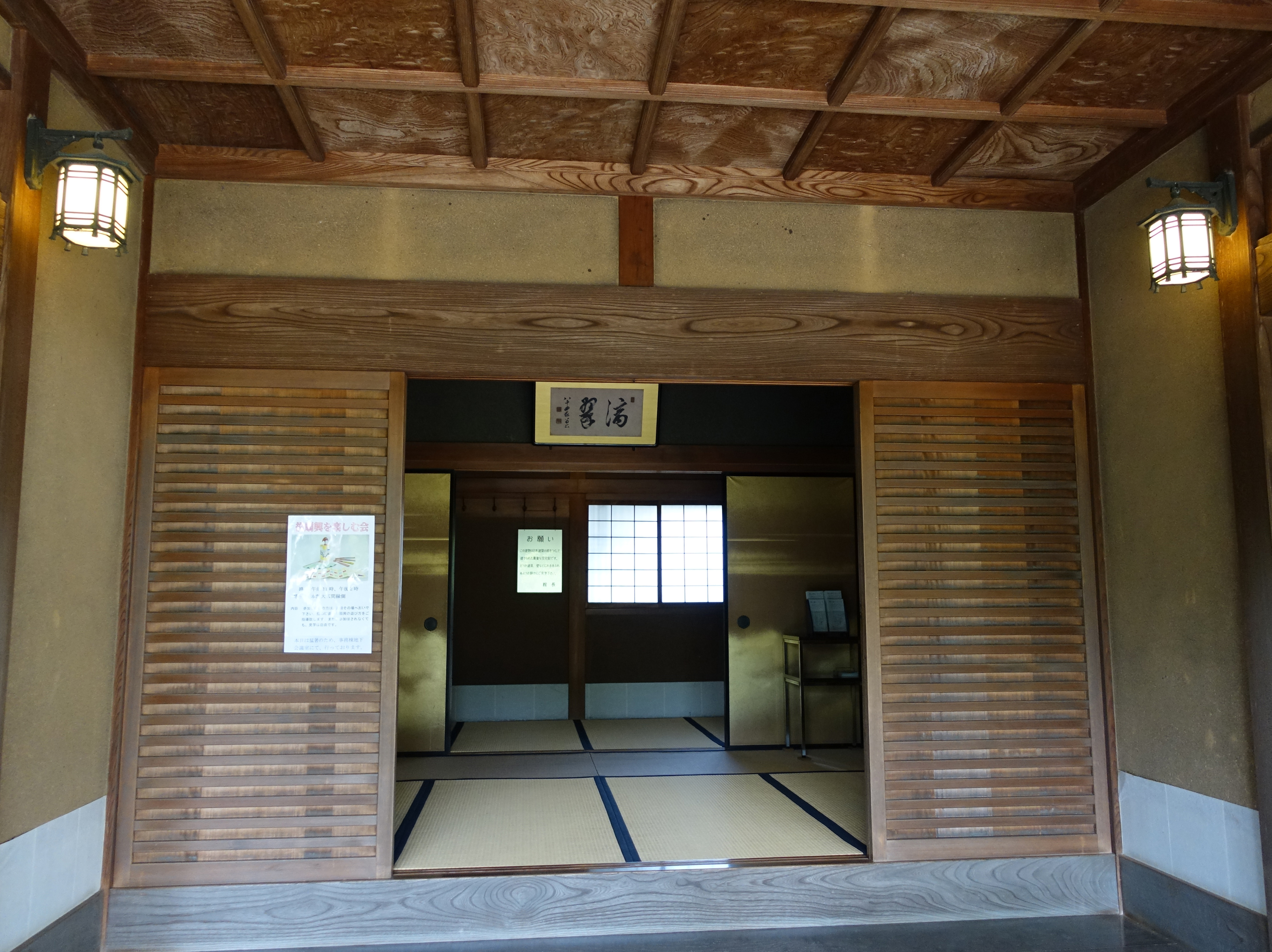 Toyama Memorial Museum in Kawajima Town, Saitama Prefecture, Japan